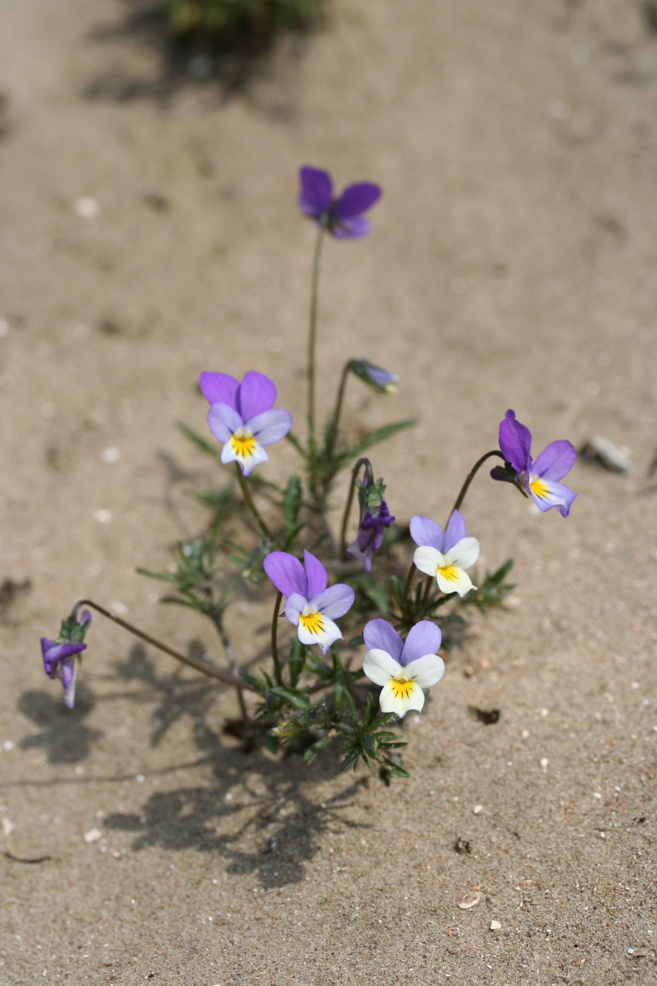 Viola curtisii 6 may 2006 IJmuiden, the Netherlands